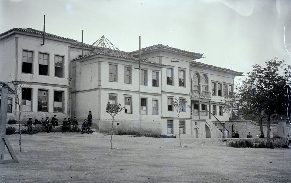 Saloniki bulgarian high school